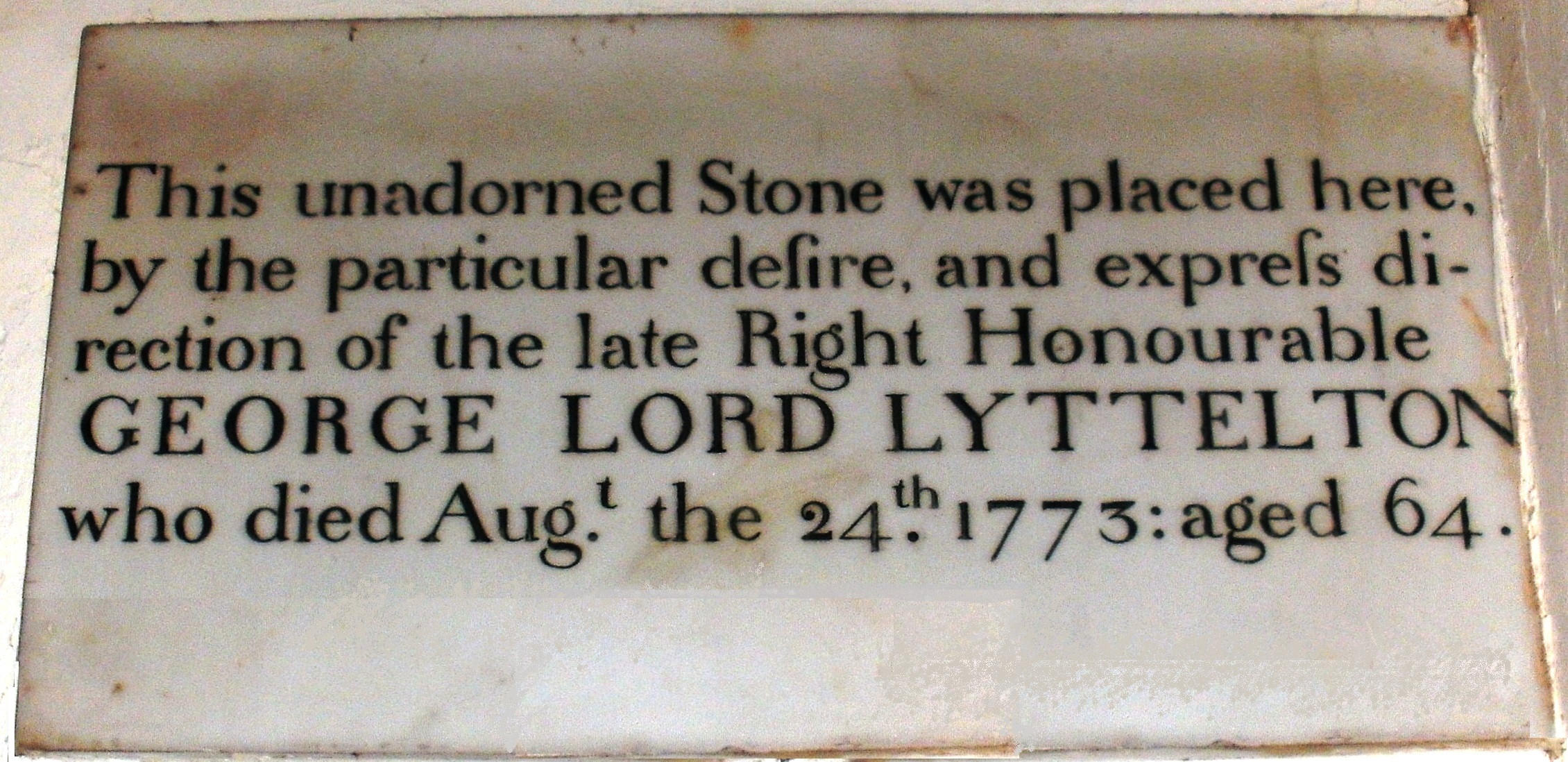 Hagley, Worcestershire, St John the Baptist Church - interior, memorial to George Lyttelton, 1st Baron Lyttelton (1709–1773)